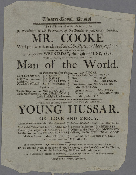 Man of the World Young Hussar